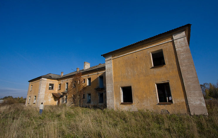 Abandoned houses in abandoned Rabochy Poselok No.3 settlement, Leningrad oblast, Russia.